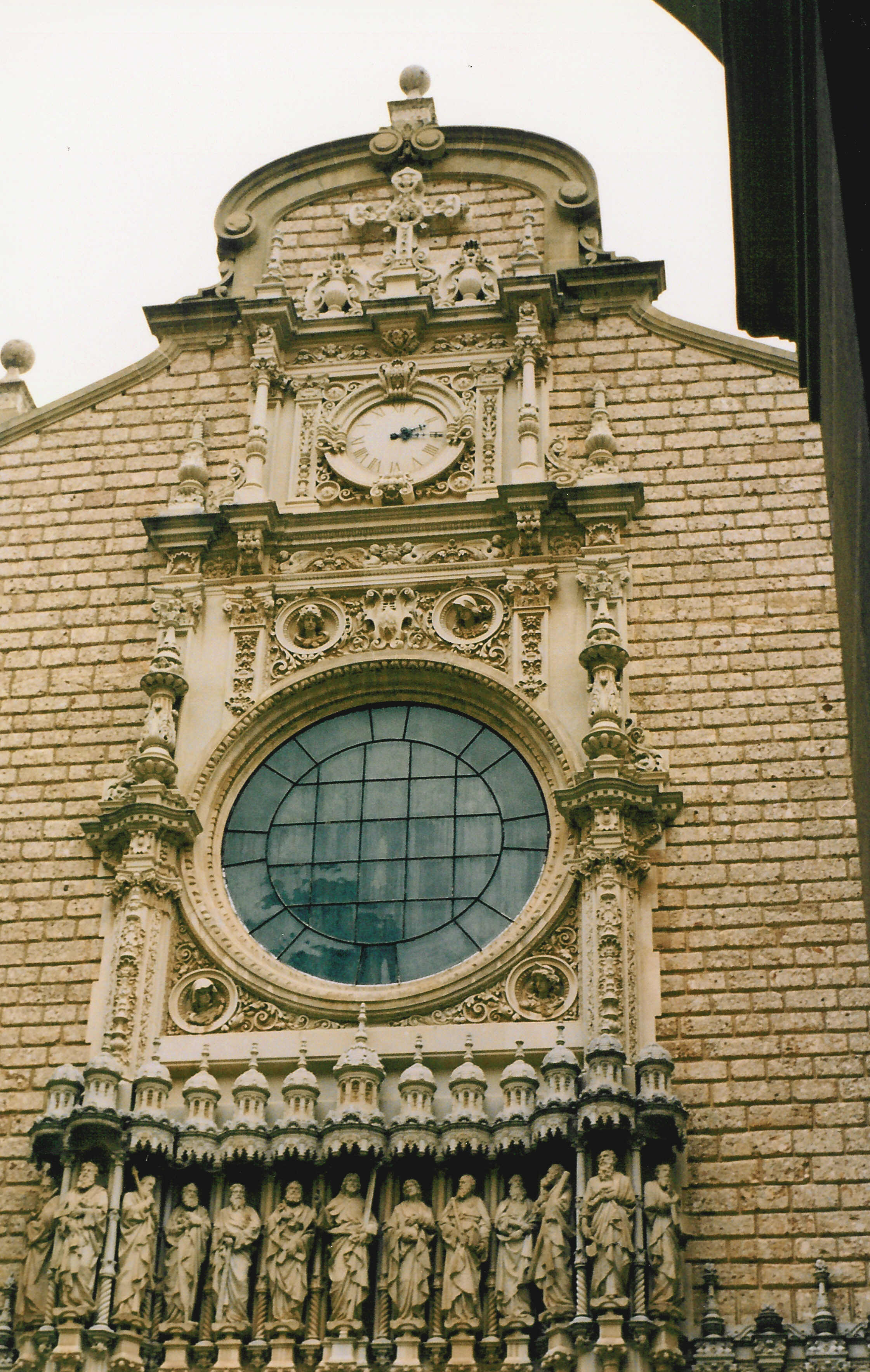 Upper portion of the façade of the church of the Benedictine monastery of Montserrat, Catalonia, Spain. The lower portion can be seen at Image:Montserrat - monastery church 02.jpg.